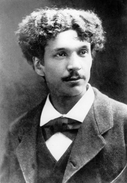 Charles Cros (1842–1888), French poet and inventor.